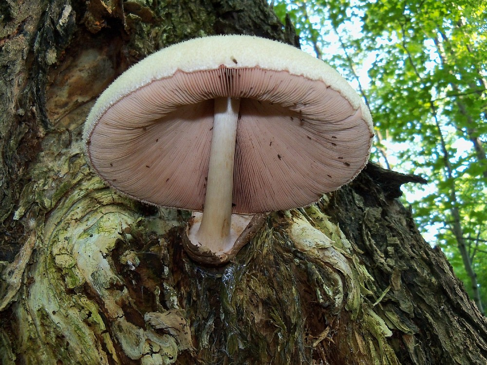 Silky Rosegill (Volvariella bombycina) growing on a sugar maple tree of Vermont, USA, July 2012